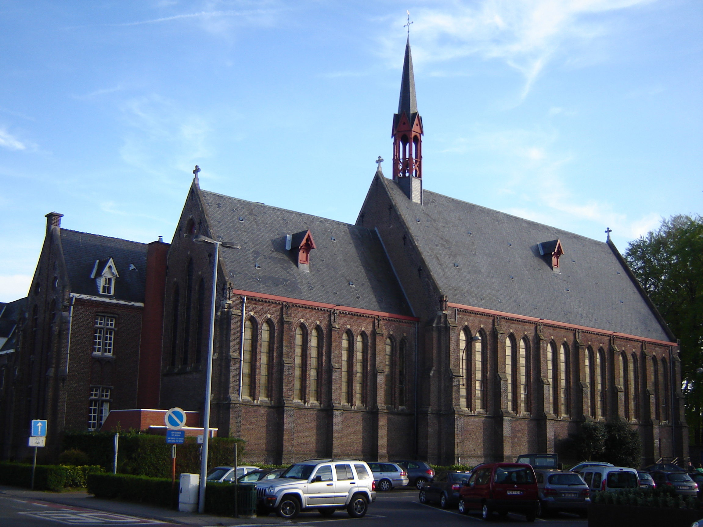 Church of the Immaculate Conception of Mary in Melle-Vogelhoek. Melle, East Flanders, Belgium